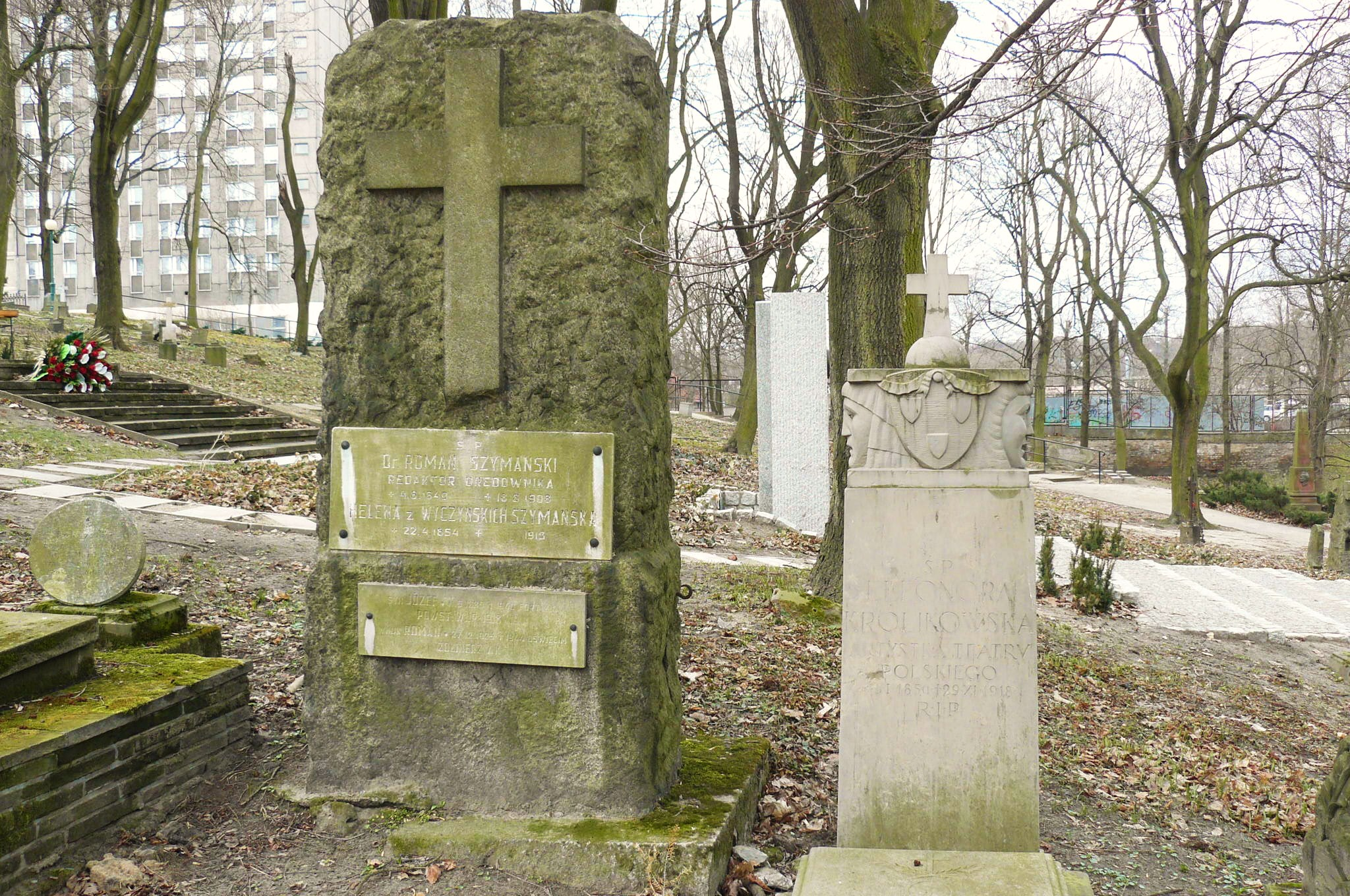 Roman Szymański Tomb. Poznan.